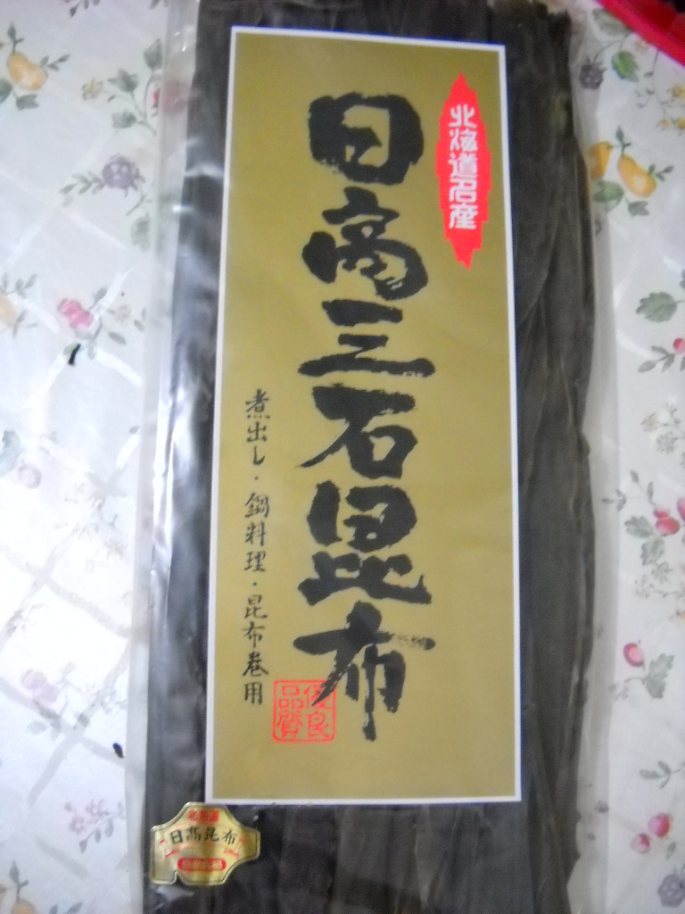 Kombu from Hidaka, Hokkaido.